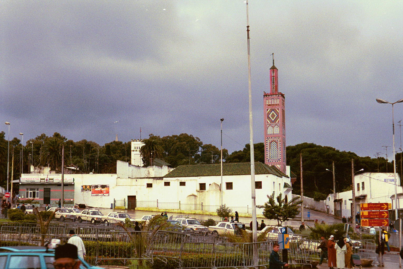 Sidi Bou Abib Mosque Tangier, Morocco